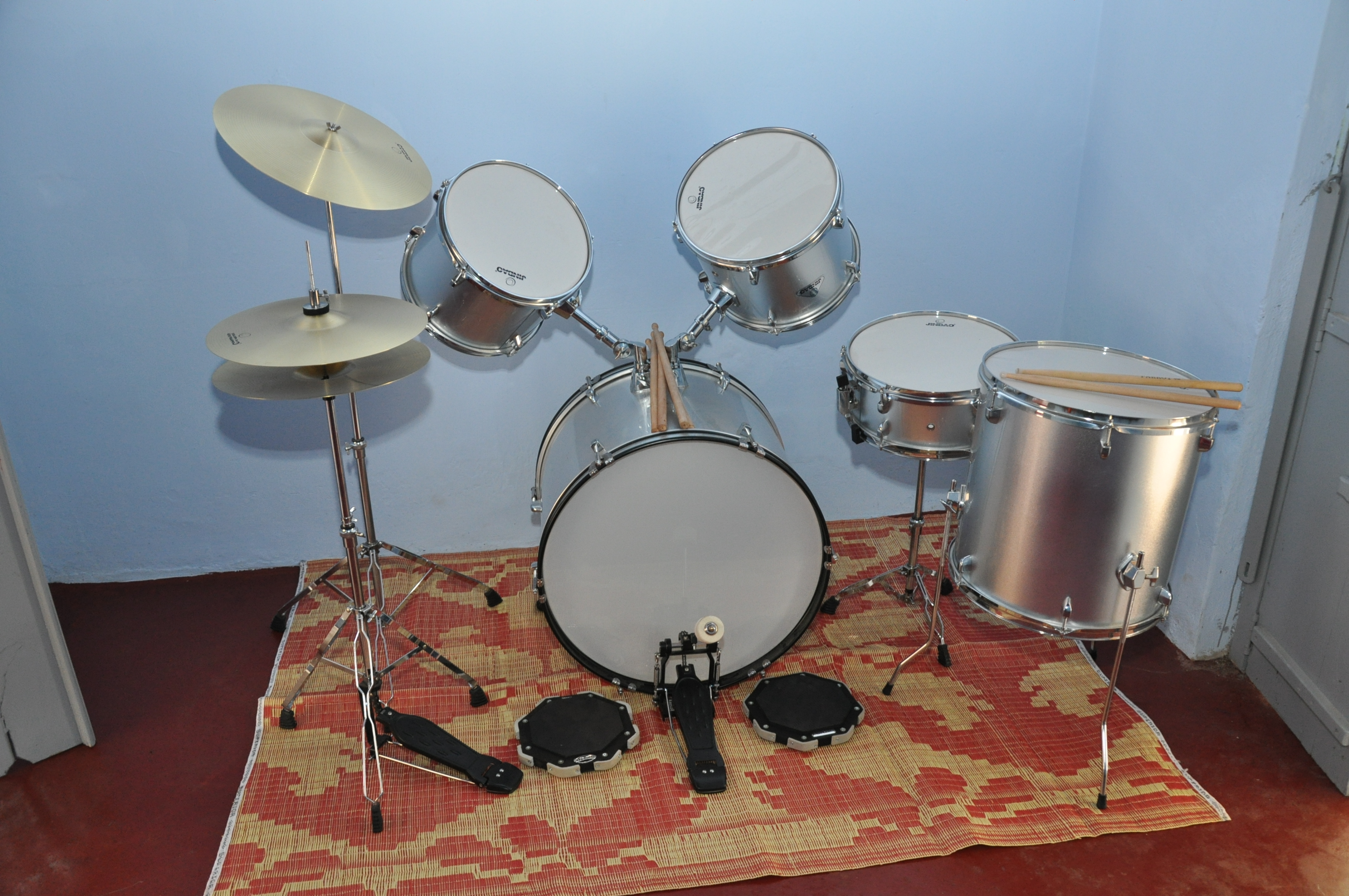 Drum set